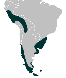 Distribution map